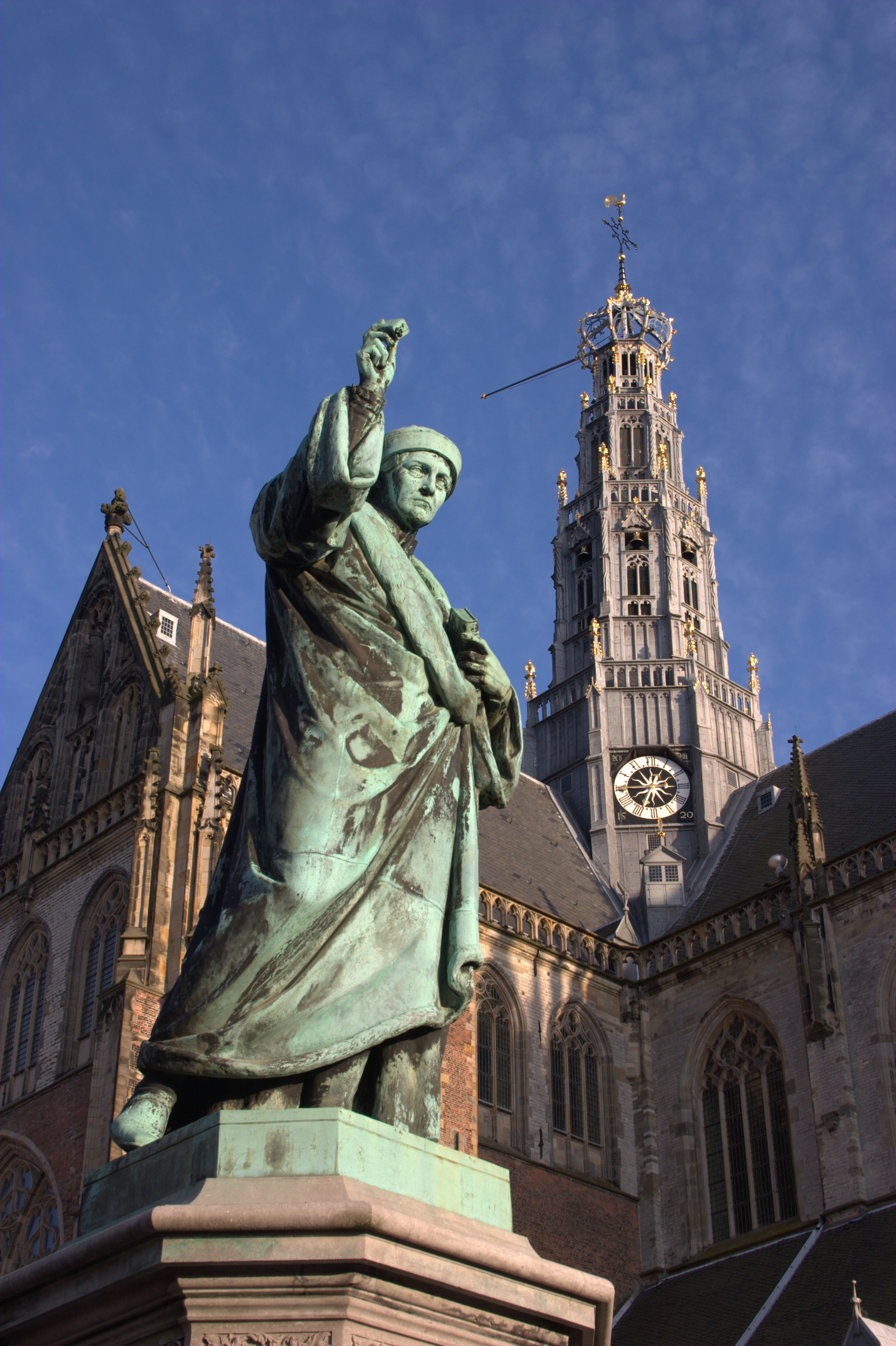 Statue of Laurens Janszoon Coster in Haarlem, the Netherlands.